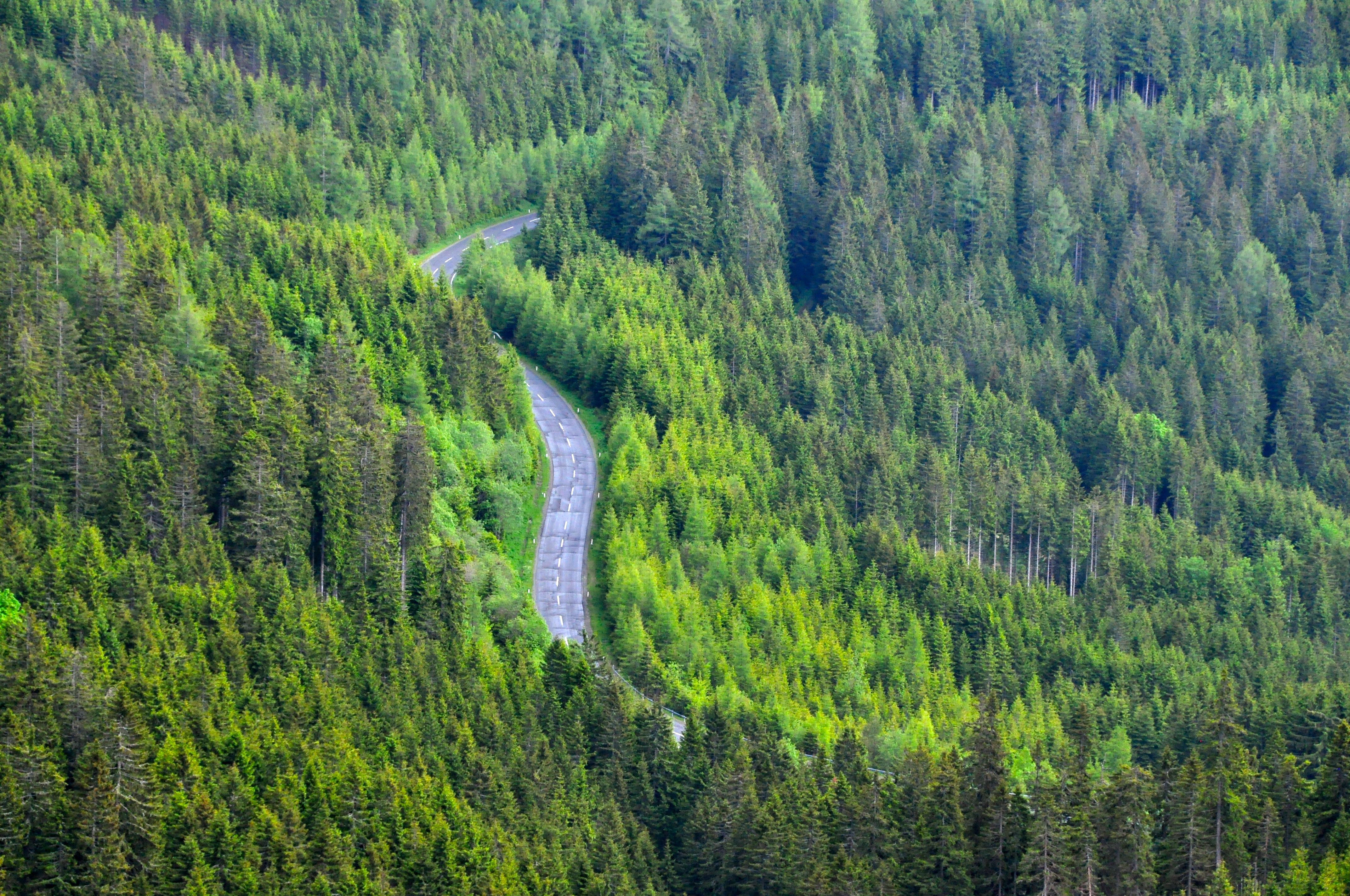 Mountain pass Weinebene (road from Frantschach-St. Gertraud to Deutschlandsberg), municipality Weineben, district Deutschlandsberg, Styria, Austria